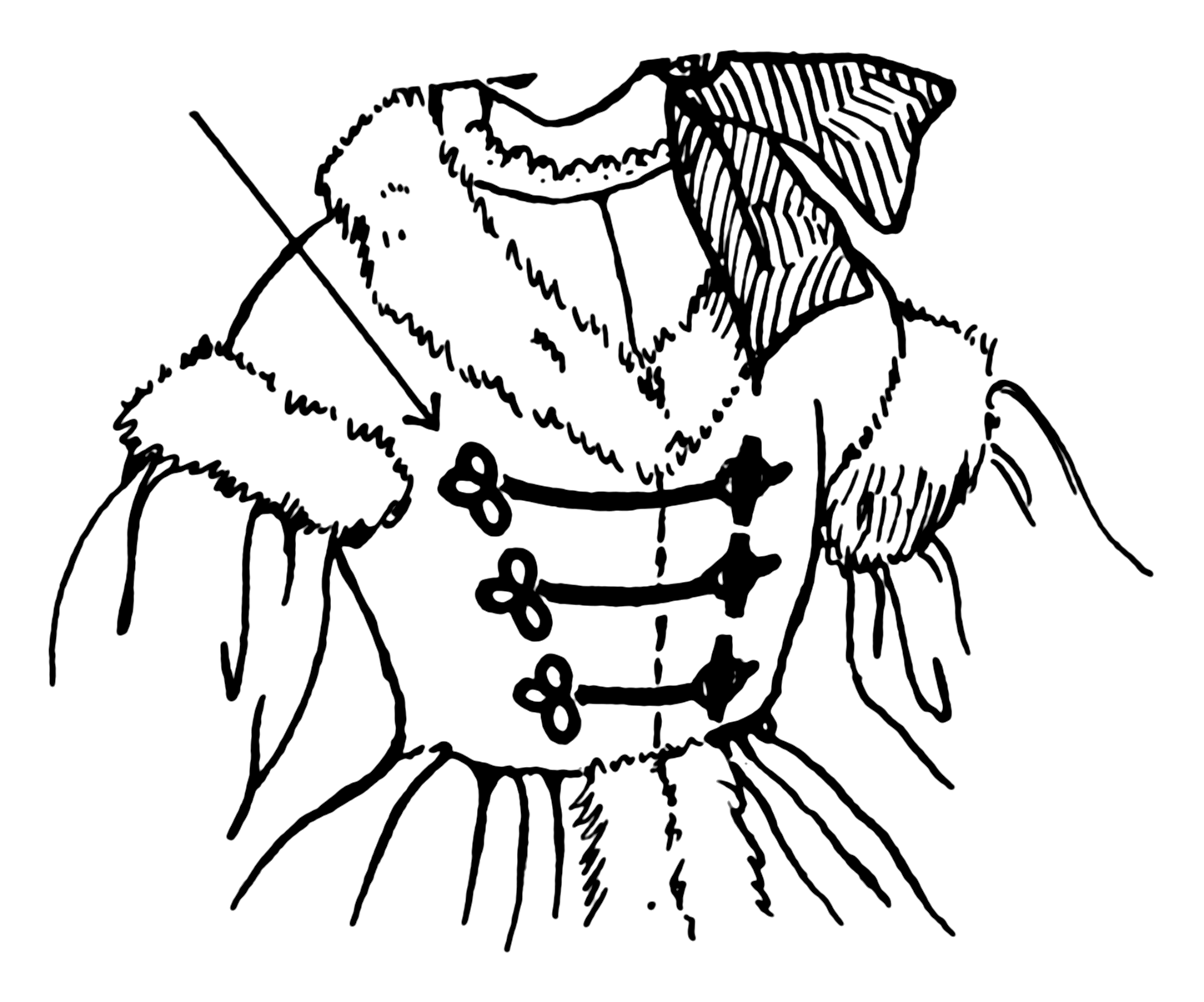 Line art drawing of frogs.